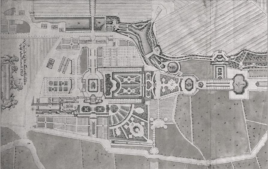 Painting of Traventhal Castle in the 18th century